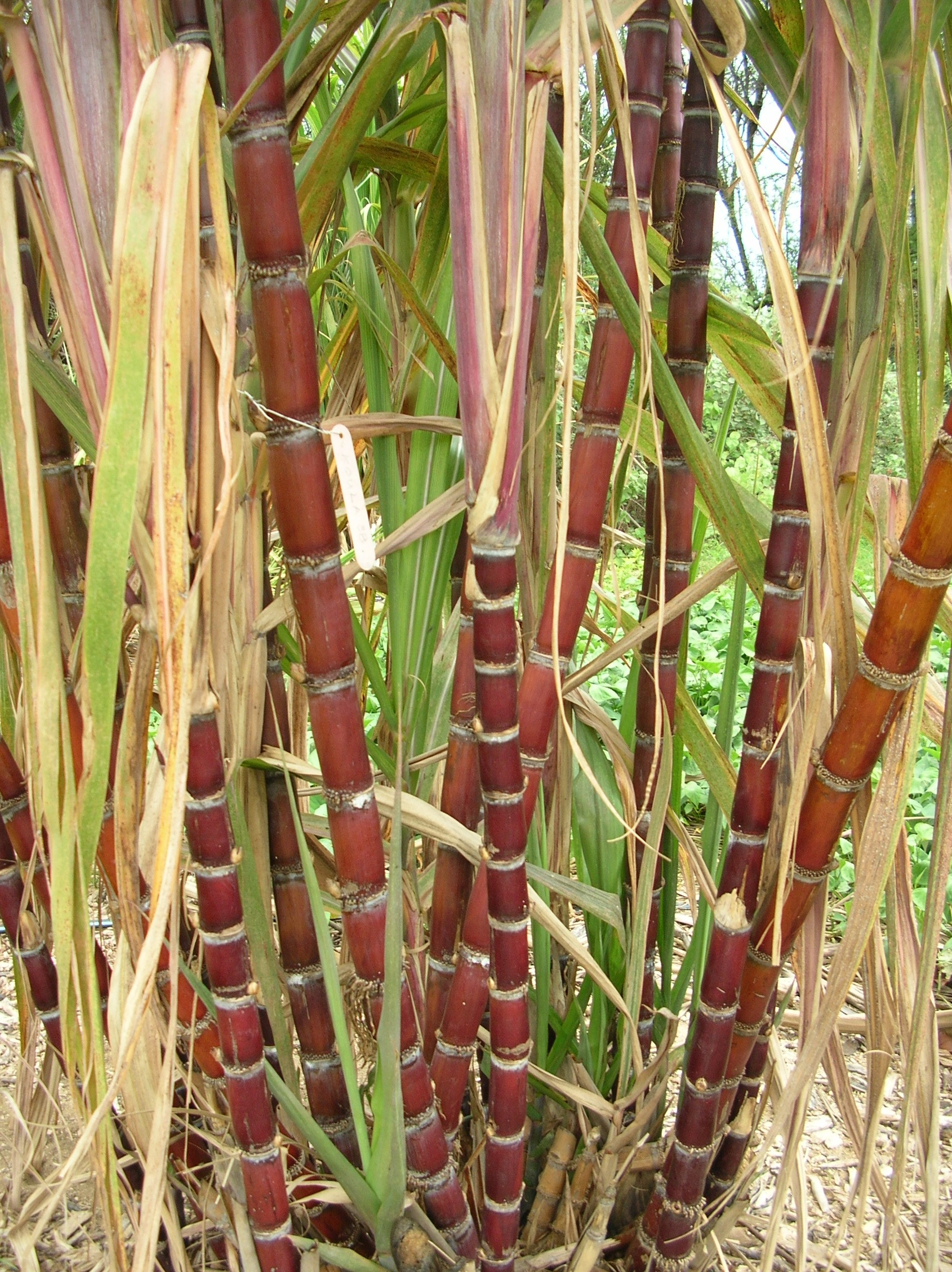 Saccharum officinarum (habit). Location: Maui, Maui Nui Botanical Garden